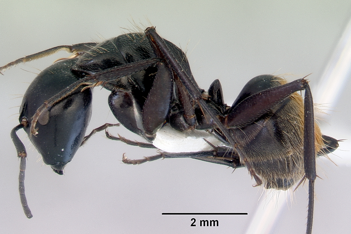 Profile view of ant Camponotus xanthopilus specimen casent0172135.